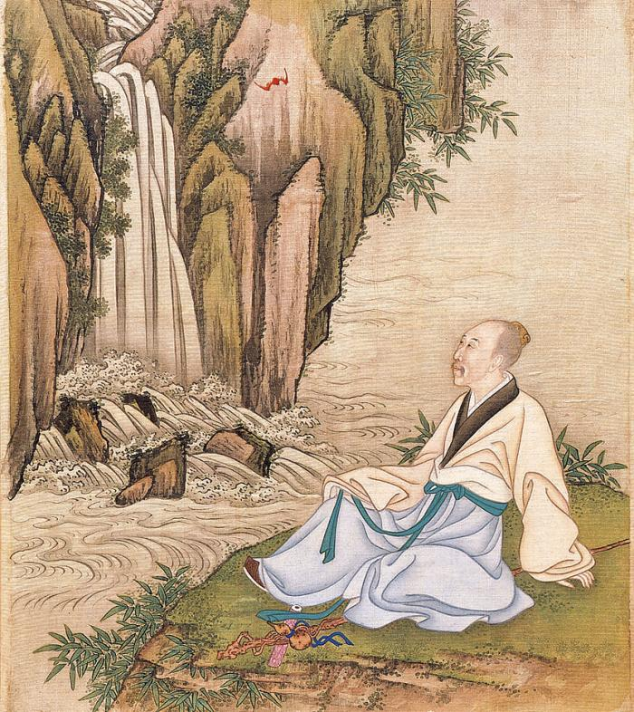 From Album of the Yongzheng Emperor in Costumes, by anonymous court artists, Yongzheng period (1723—35). One of 14 album leaves, colour on silk. The Palace Museum, Beijing.